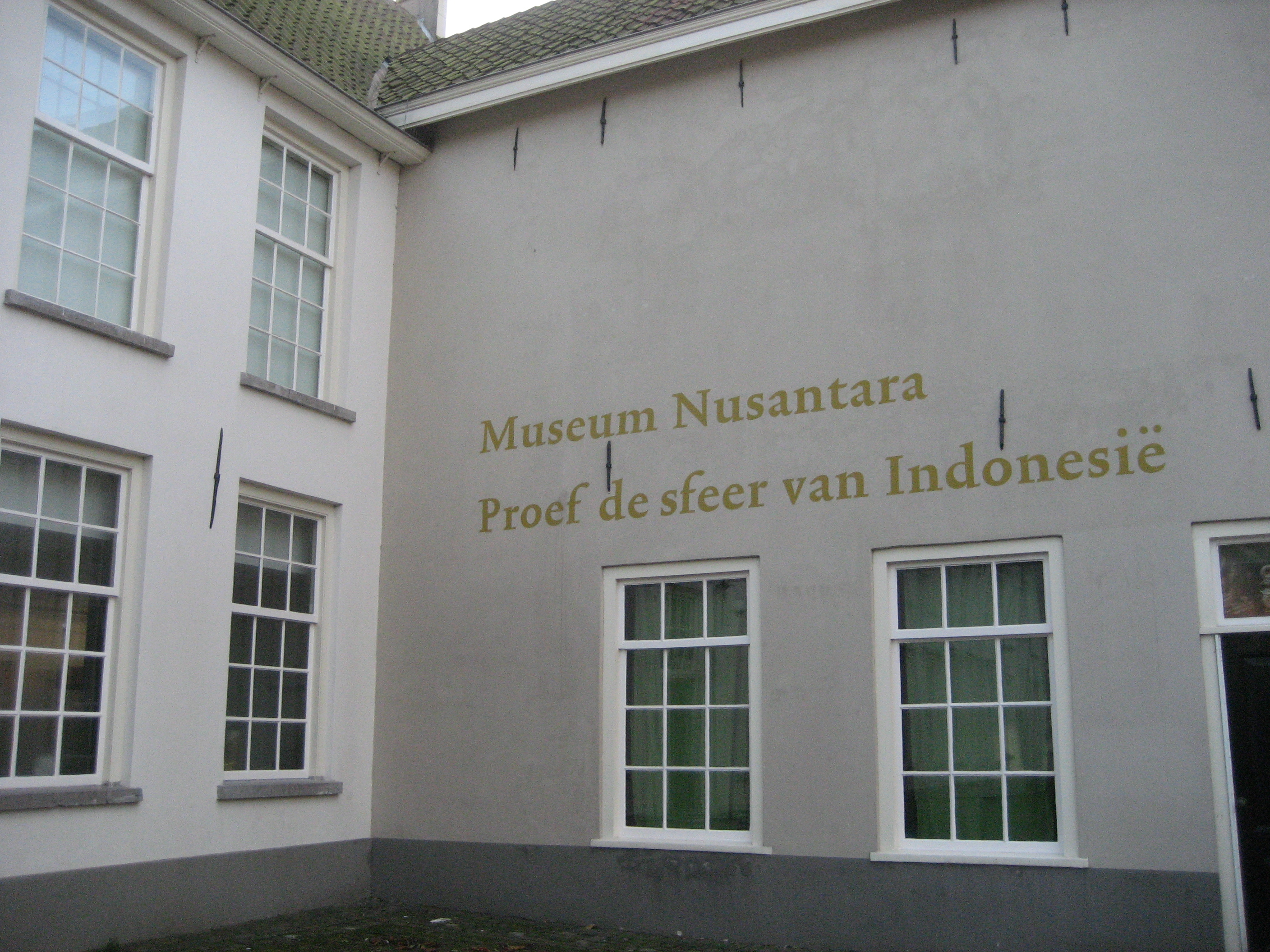 Former Museum Nusantara in Delft (The Netherlands). (About art and culture of Indonesia)